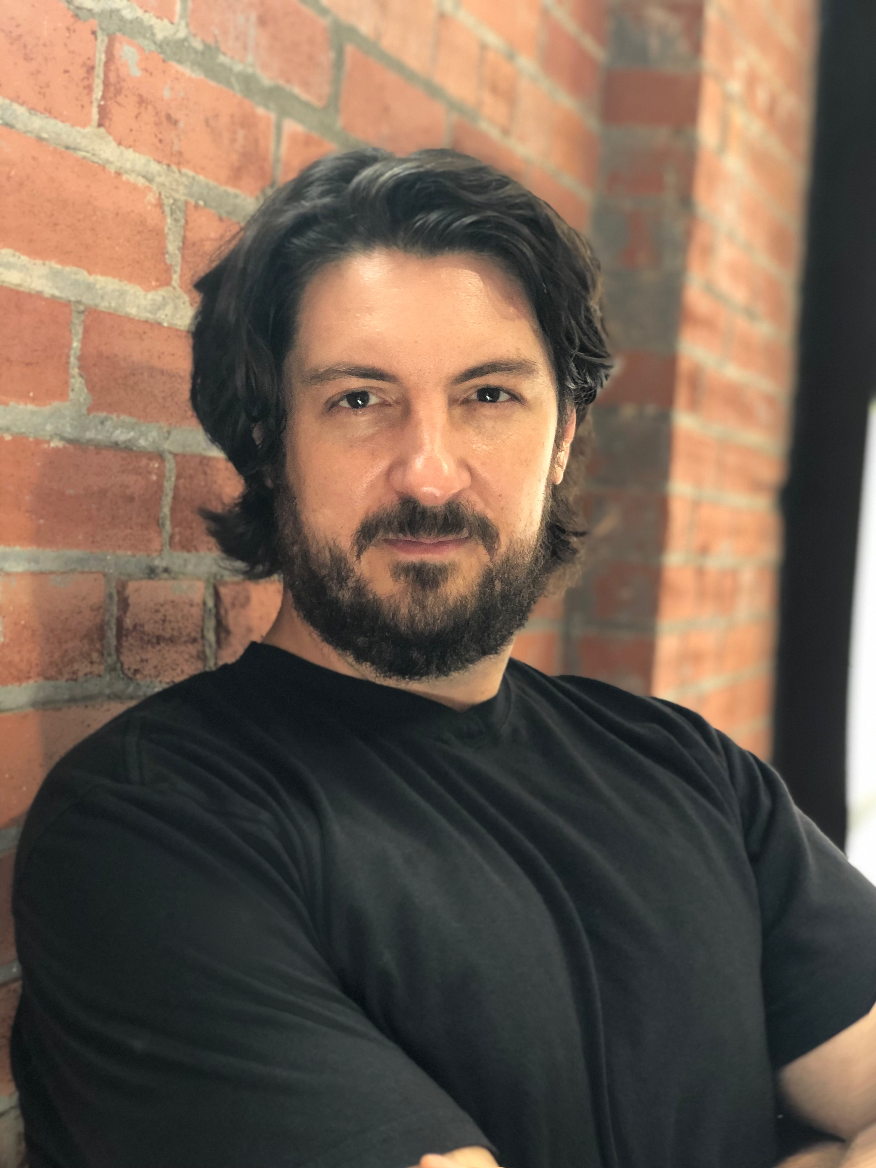 Photo of Dustin Hodge